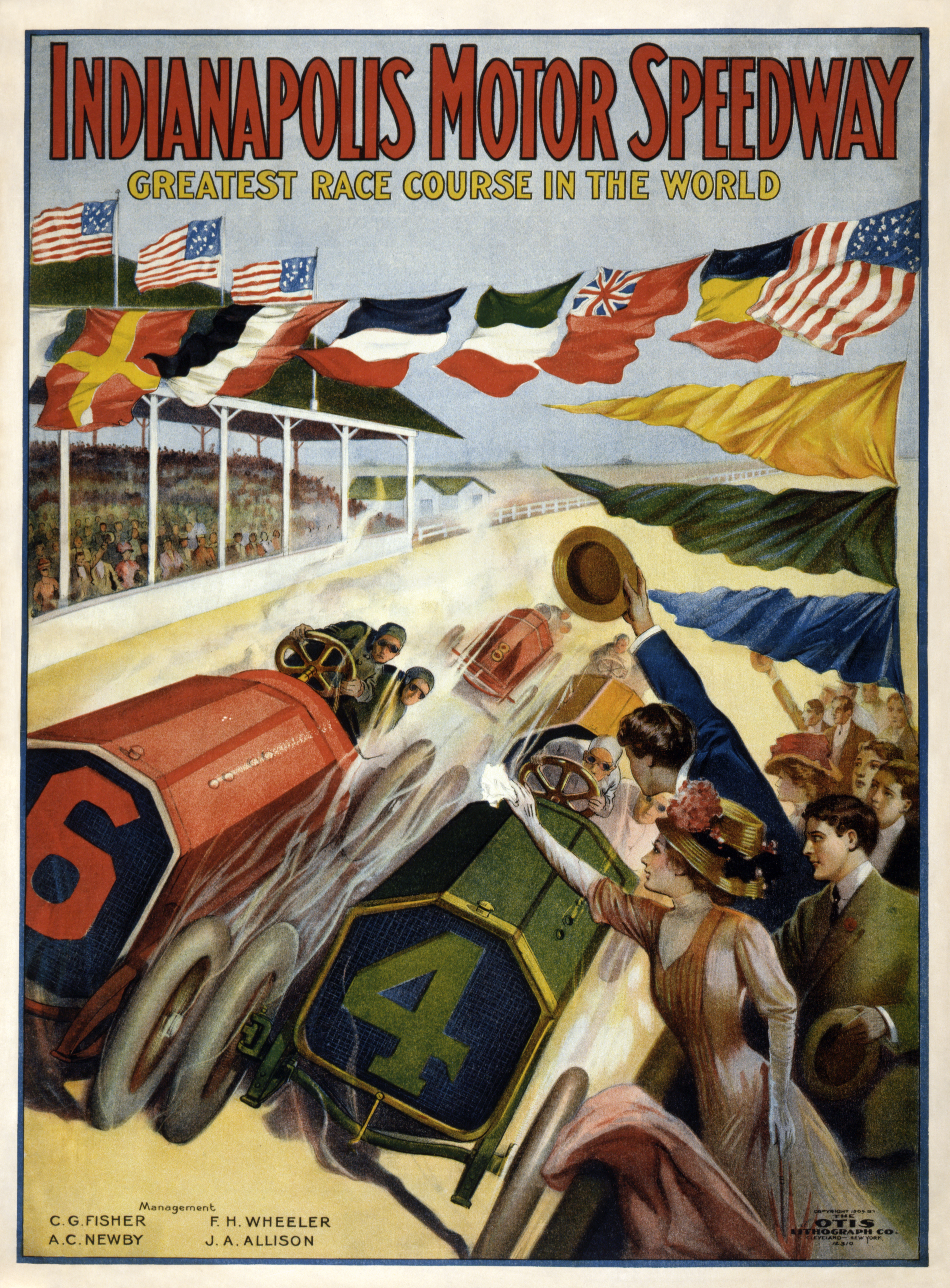 1909 poster advertising the Indianapolis Motor Speedway (which opened in 1909, making this a very early advertisement)